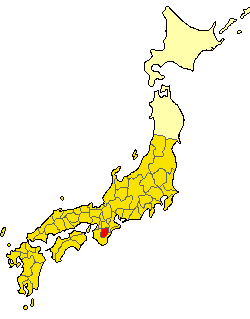 The location of Yoshino Province of Japan in 716. From image:Japan_prov_map716.png.